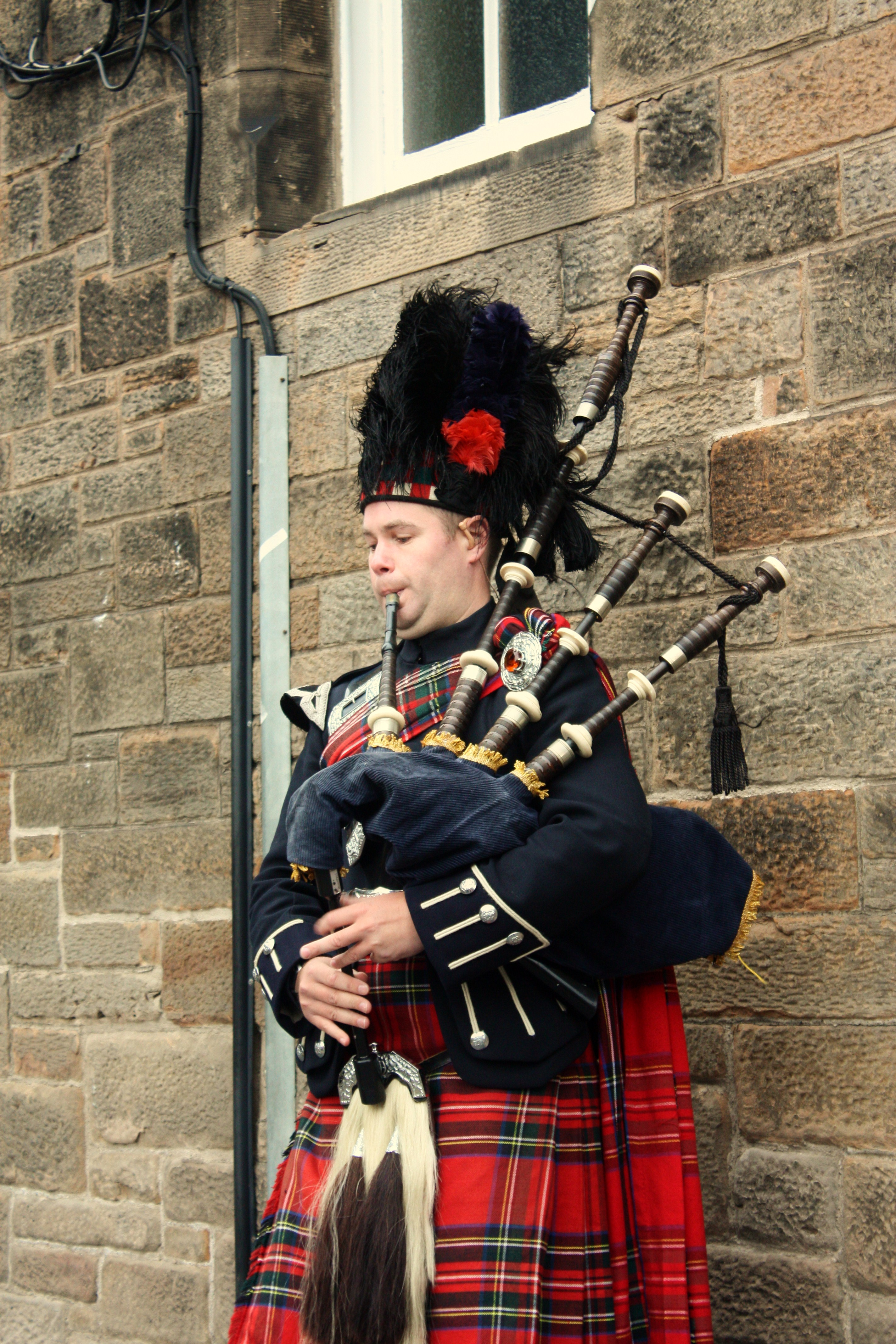 Bagpiper playing on the sidewalk. Edinburgh, Scotland.